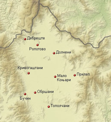 Map of Prilep plain